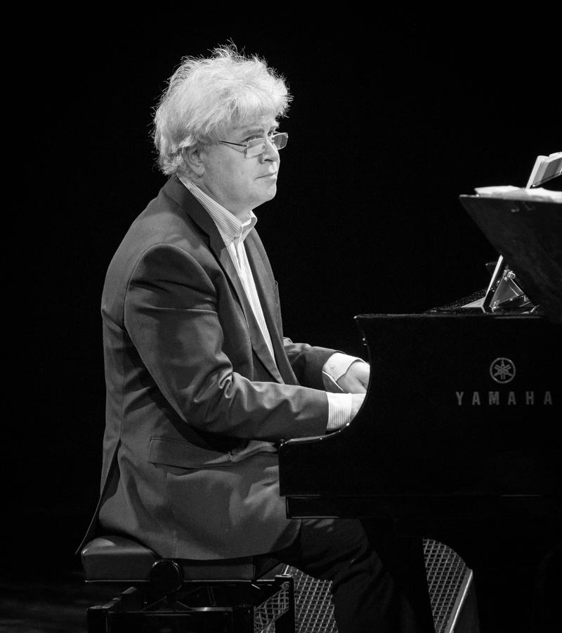 Vigleik Storaas with Dagfinn Nordbø at the stage at Chat Noir. The concert was part of Oslo Jazzfestival and took place on 15. August 2017. Lineup: Dagfinn Nordbø (spoken words), Vigleik Storaas (piano) and Gaute Storaas (double bass).